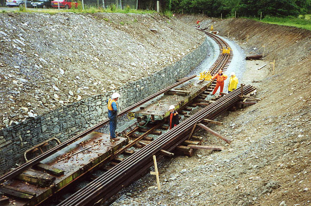 Welsh Highland Railway: near Dinas. In July 2000 staff on the narrow-gauge line were relaying track to Waunfawr. Since 2003 the route has opened to Waunfawr and beyond to Rhyd-ddu (at SH5752)